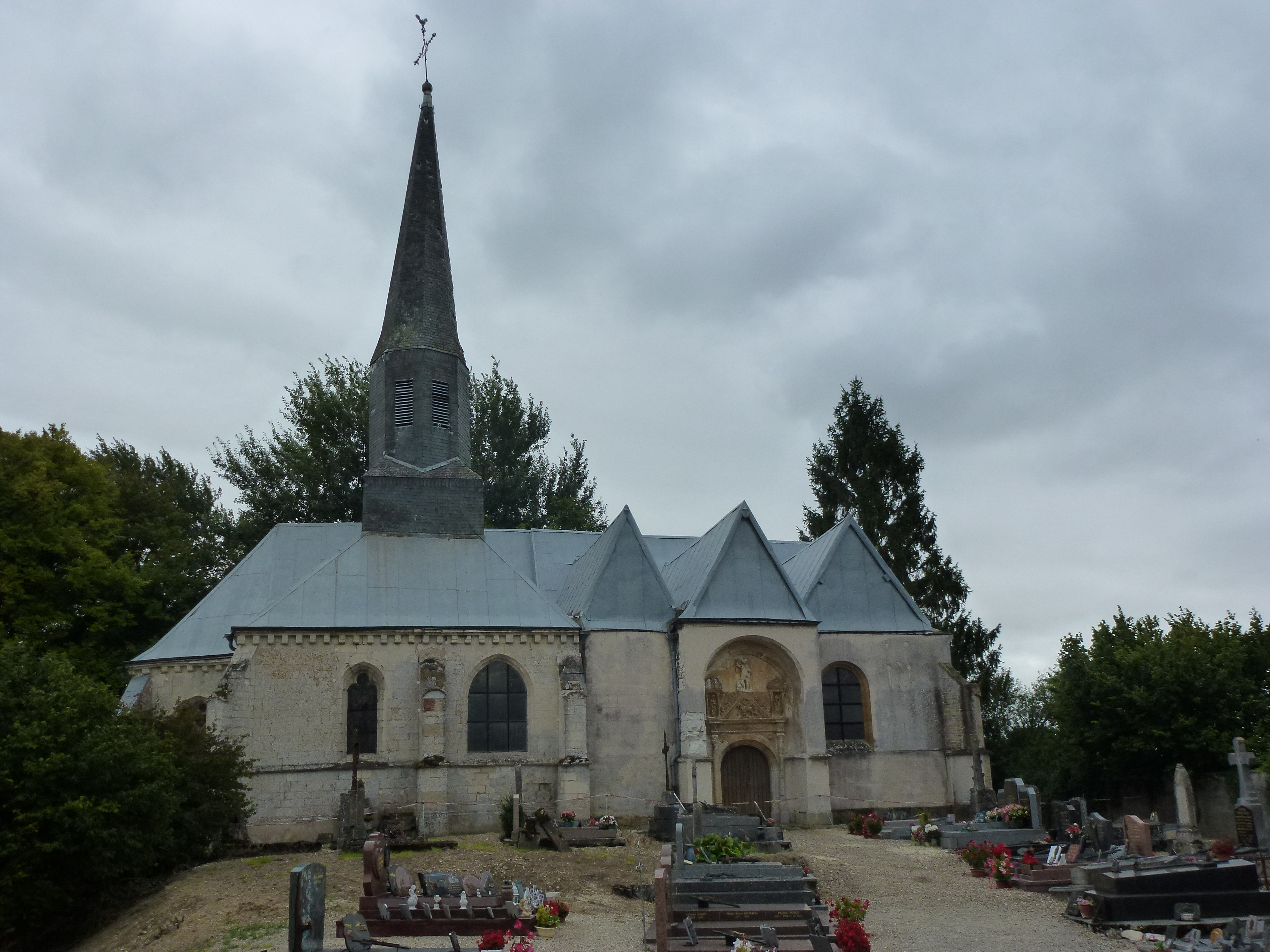 Doux (Ardennes) église Saint-Martin